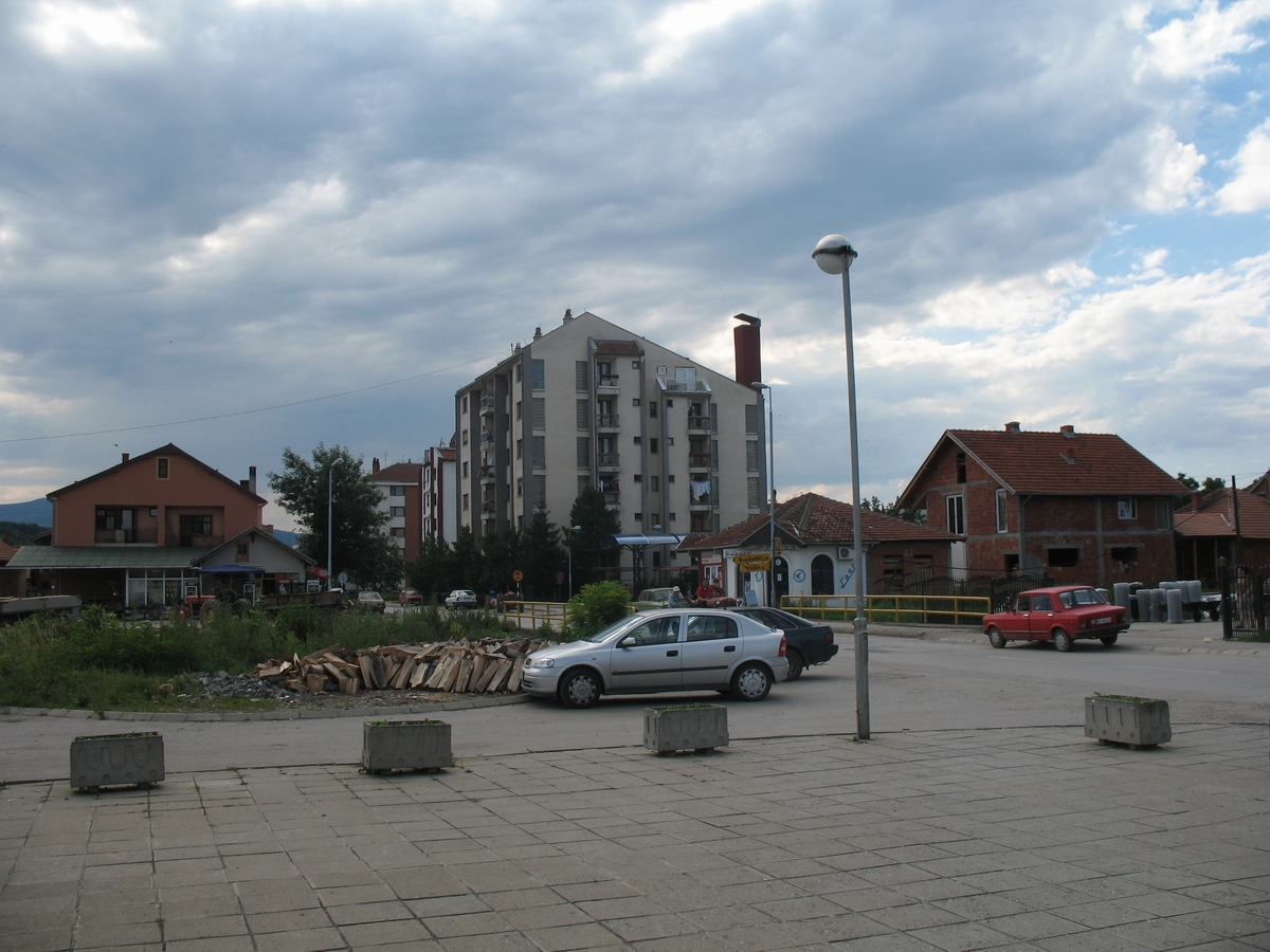 Blace city, Serbia.